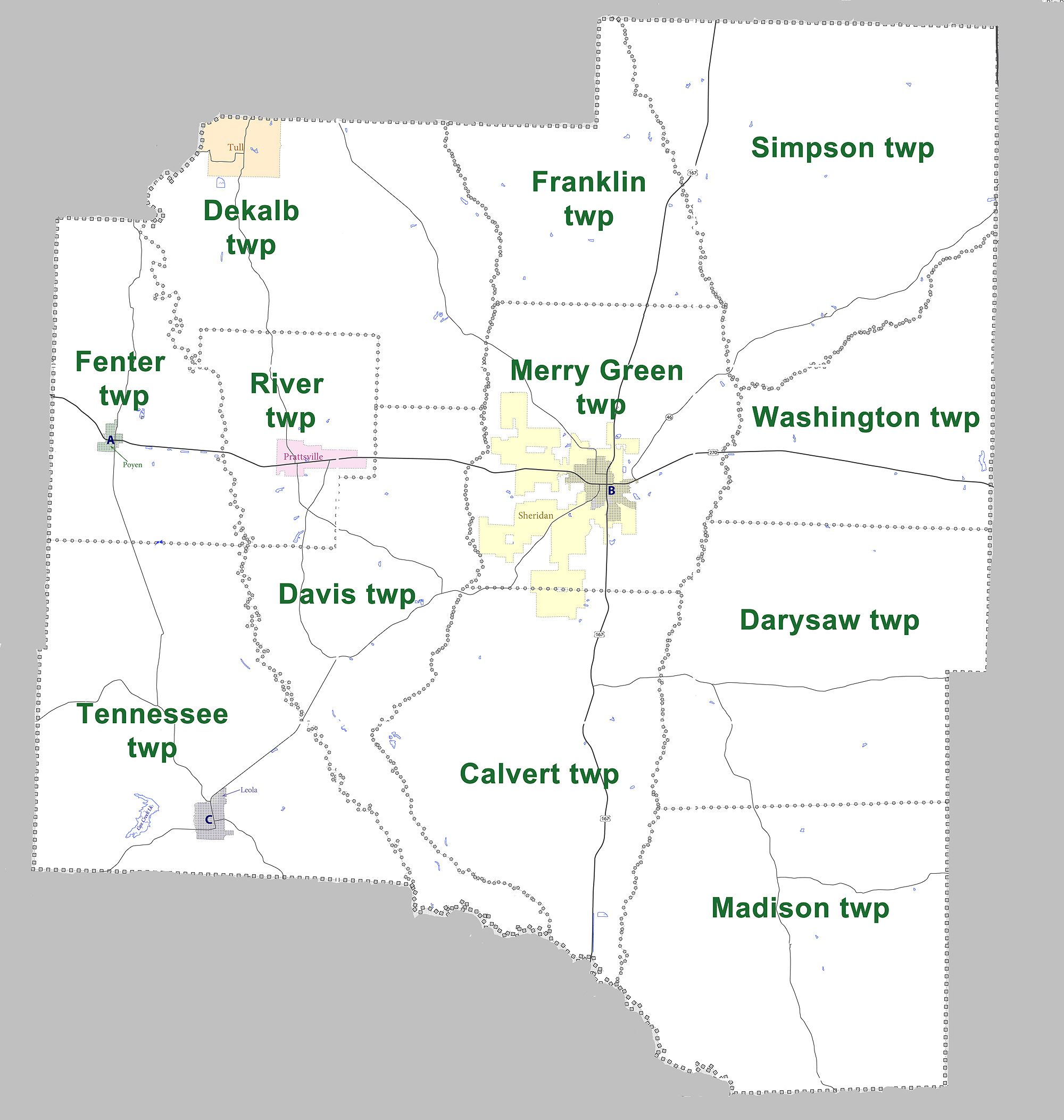 Large map showing townships in Grant County, Arkansas. Modified from US census map (for 2010 census) for Grant County, Arkansas